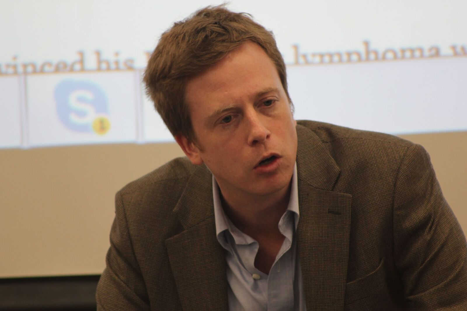 Barrett Brown, University of North Texas, 2017